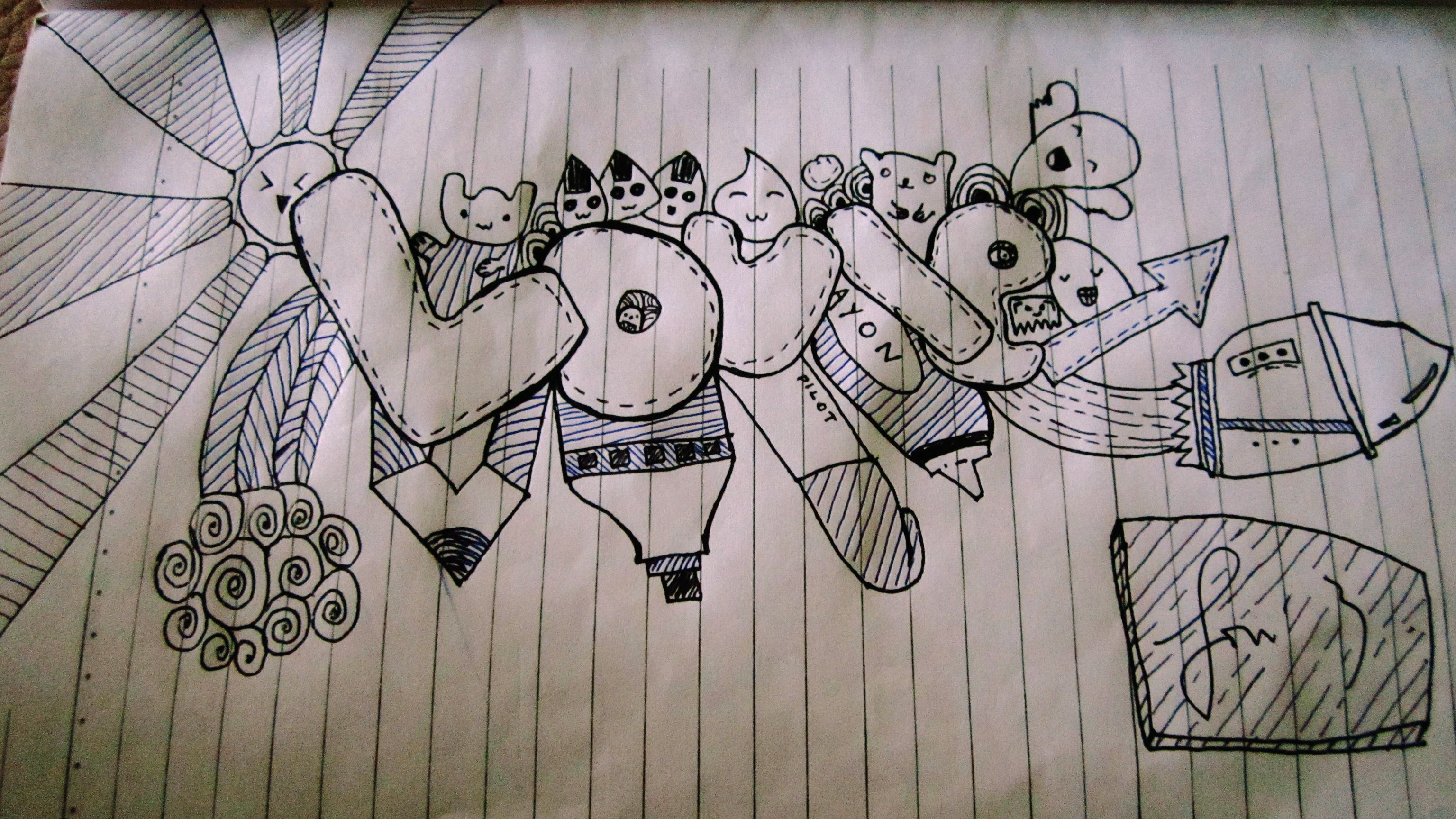 an example of a doodle from the name Louie